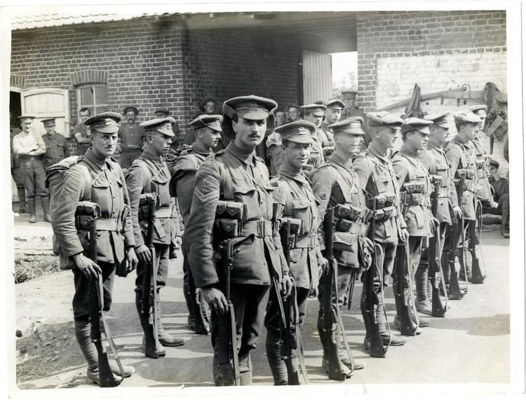 Party of men of the Leicesters going home on leave for 7 days from the front [Estaires, France].